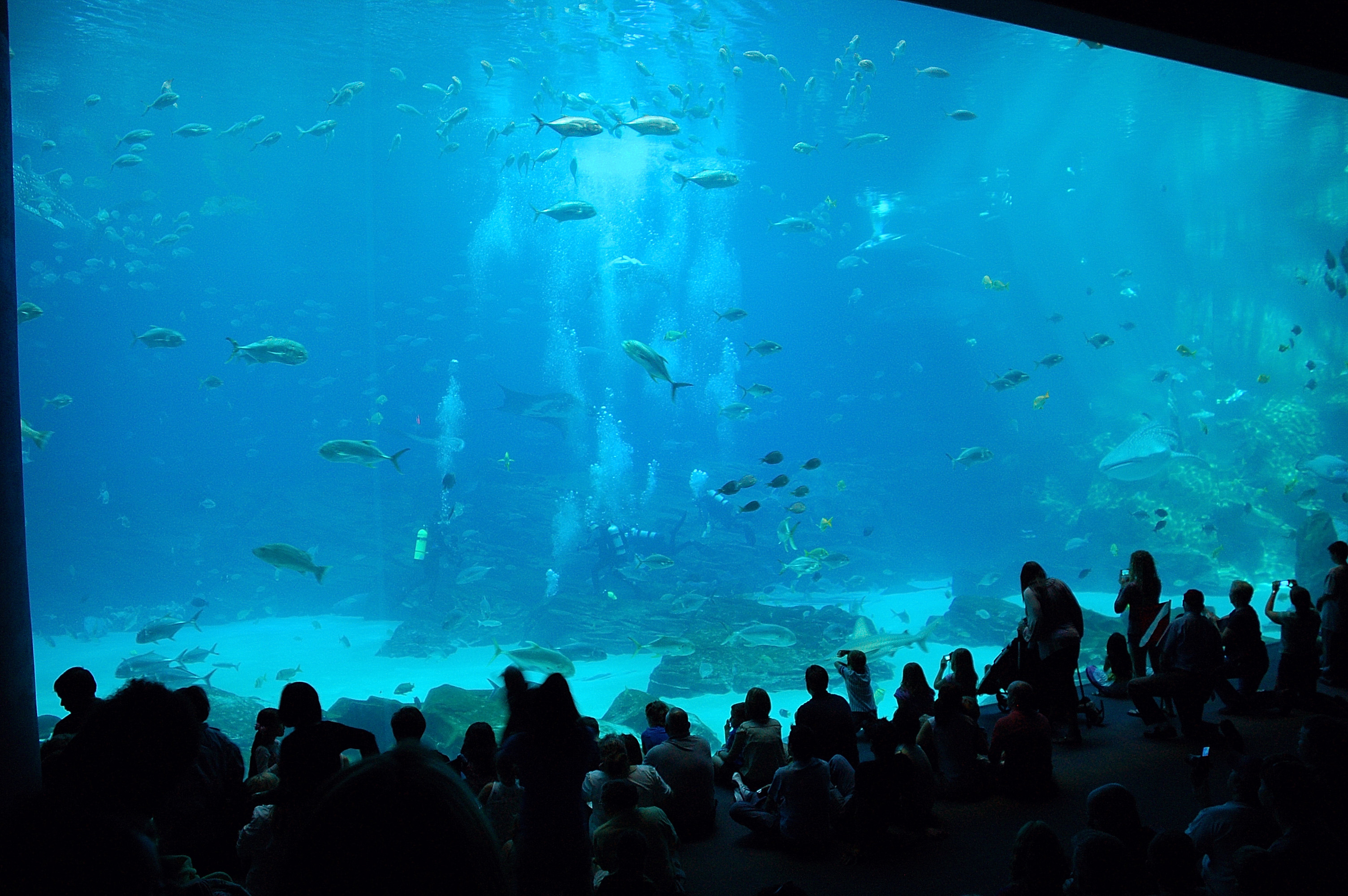 ATLANTA (Oct. 11, 2010) Guests observe Navy divers assigned to Trident Refit Facility in Kingsbay, Ga. as they dive in a tank at the Georgia Aquarium. (U.S. Navy photo by Mass Communication Specialist 1st Class Ruben Perez/Released)